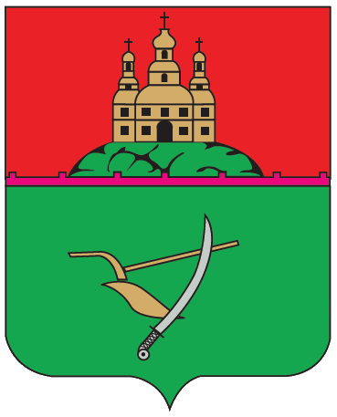 Coat of arms of Wasilkowski Raion, Ukraine.